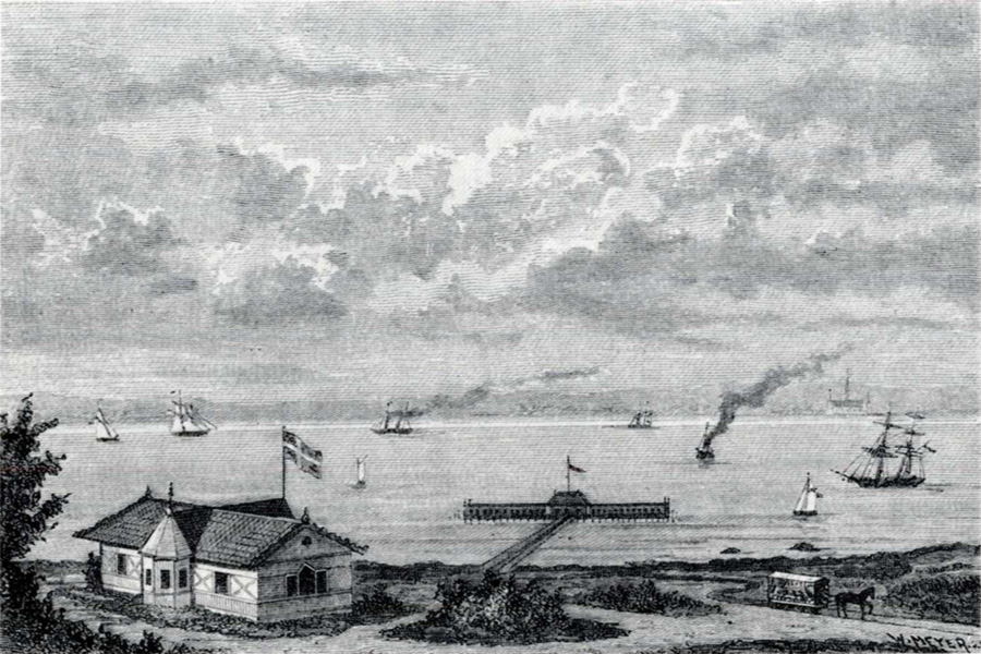 Lithography by W. Meyer from a brochure, "Ramlösa sommaren 1878", published by Curt Wallis.